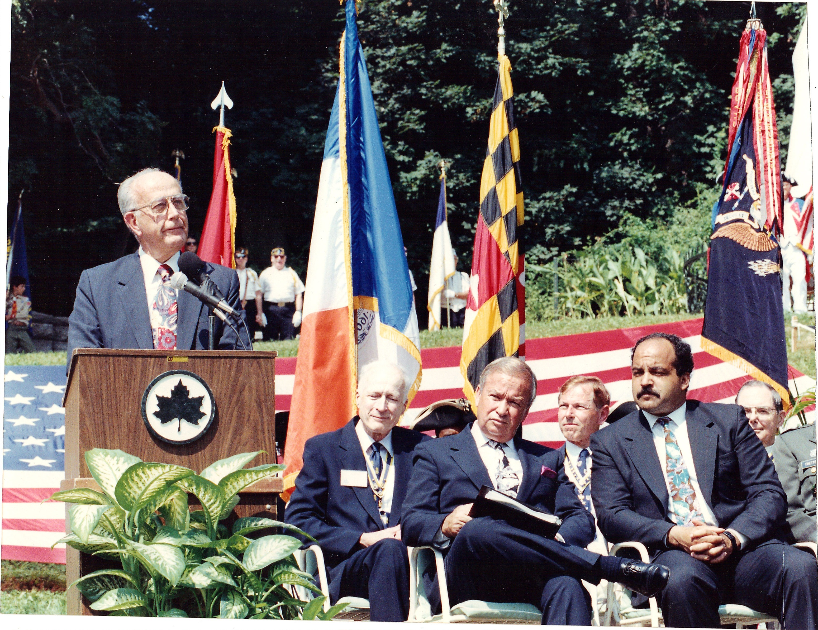 Governor Schaefer at the unveiling of a military monument in Prospect Park, Brooklyn, New York